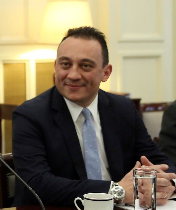 Greek politician, Kostas Vlassis